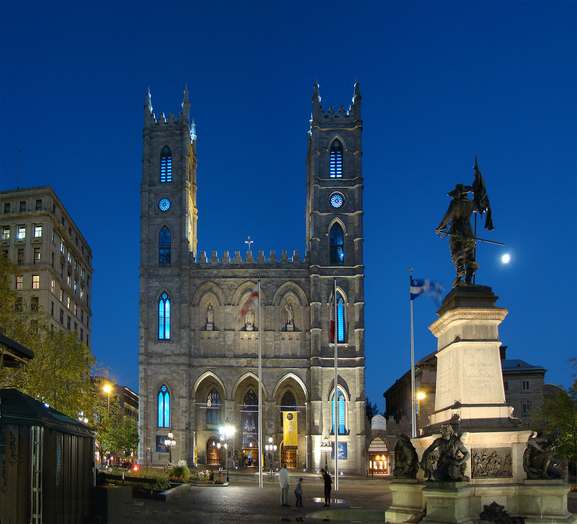 Notre-Dame Basilica, Montreal, Quebec, Canada. View from Place d'Armes.